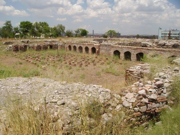 A view of the Roman Baths of Ankara.